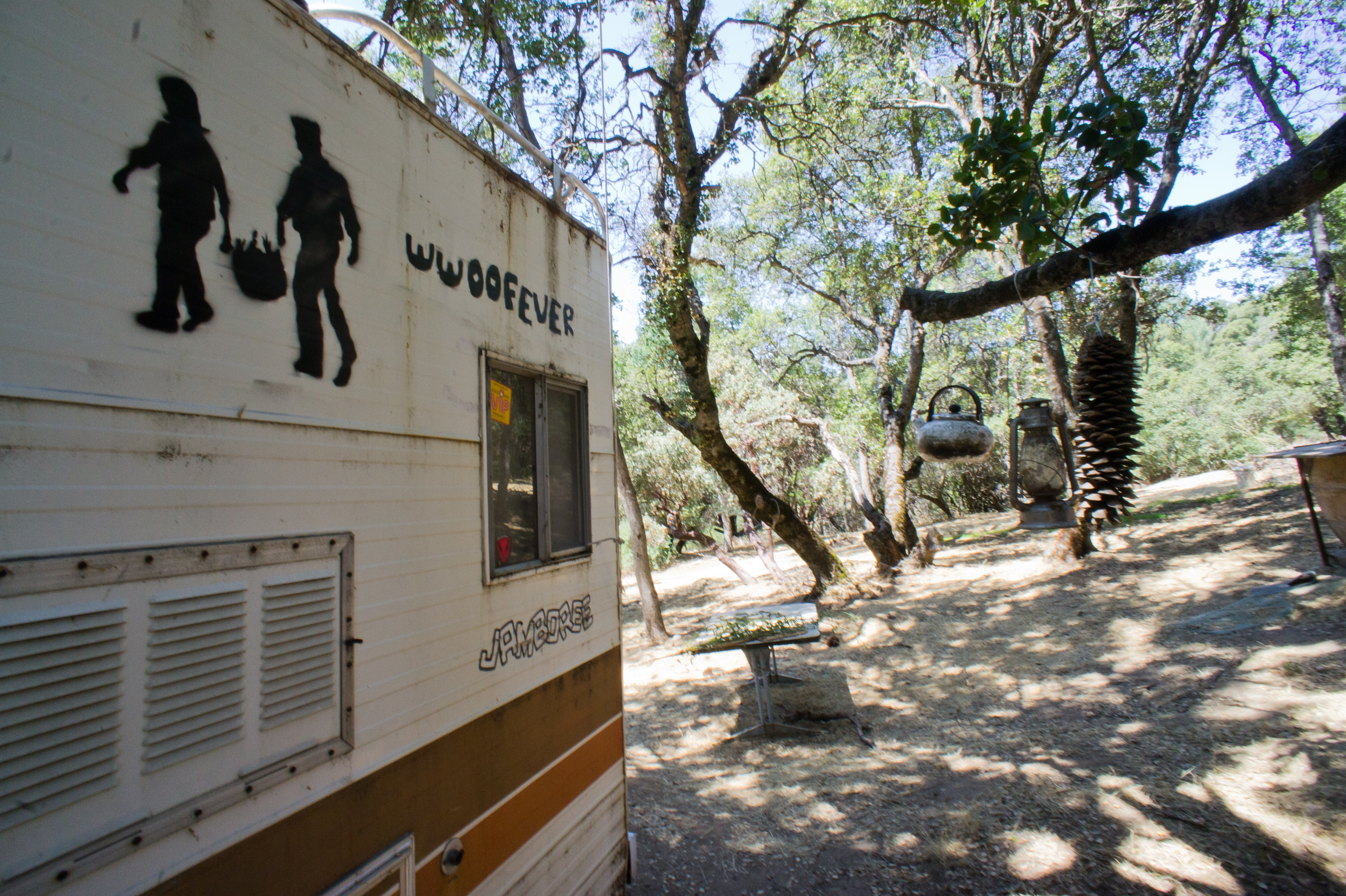 WWOOF encampment. Worldwide Opportunities on Organic Farms or Willing Workers on Organic Farms